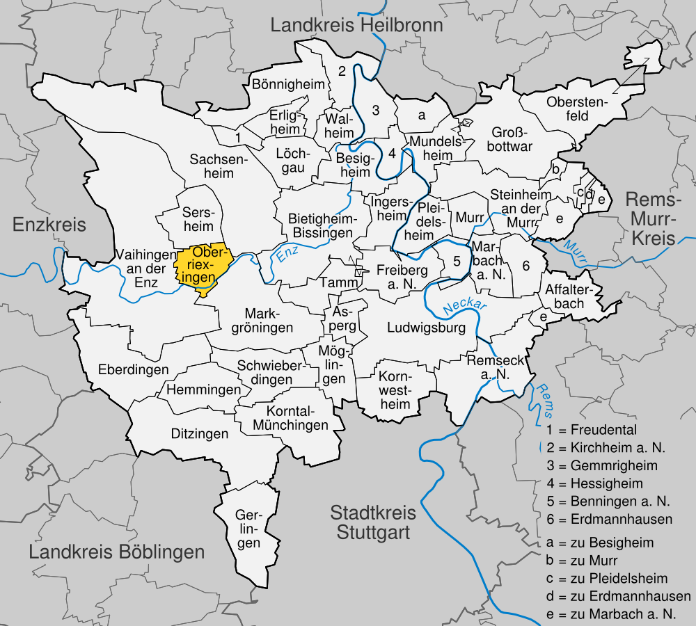 position of Oberriexingen within distict of Ludwigsburg, Baden-Württemberg, Germany